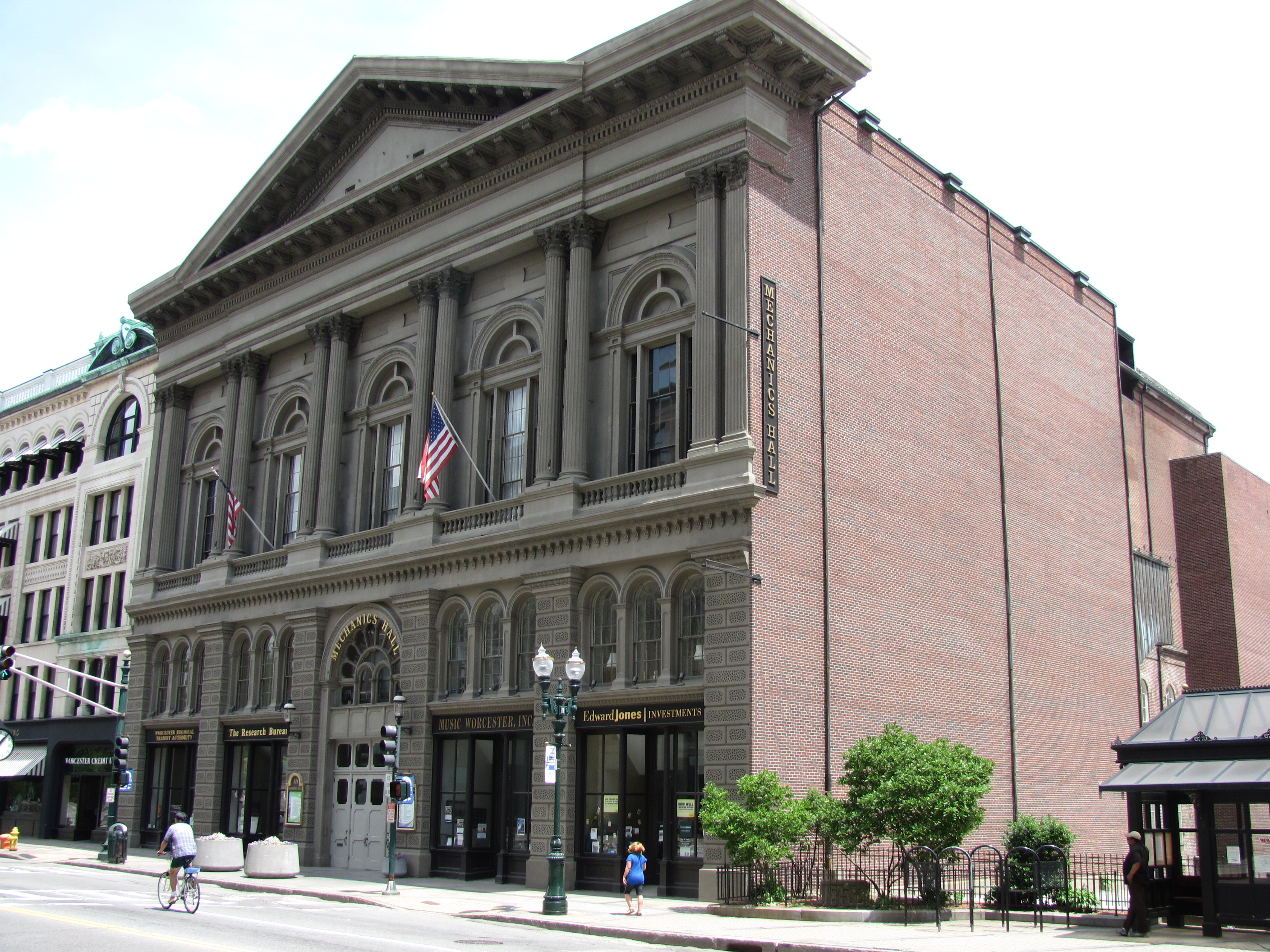 Mechanics Hall, Worcester Massachusetts